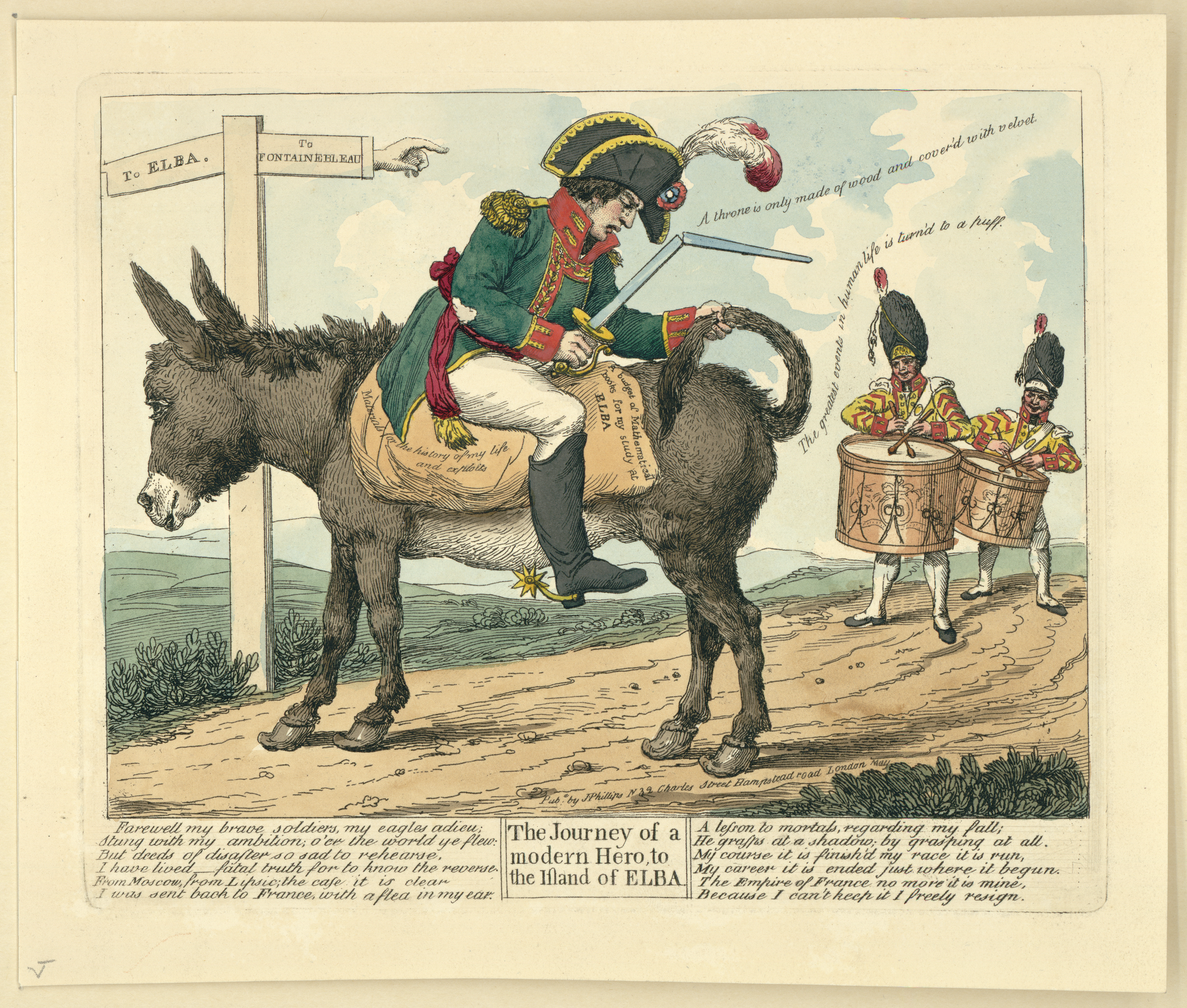 "The journey of a modern hero, to the island of Elba" Print shows Napoleon I seated backwards on a donkey on the road "to Elba" from Fontainebleau; he holds a broken sword in one hand and the donkey's tail in the other while two drummers follow him playing a farewell(?) march. Includes twelve lines of verse. Original source 1 print : etching, hand-colored ; 18.9 x 22.7 cm. (sheet)